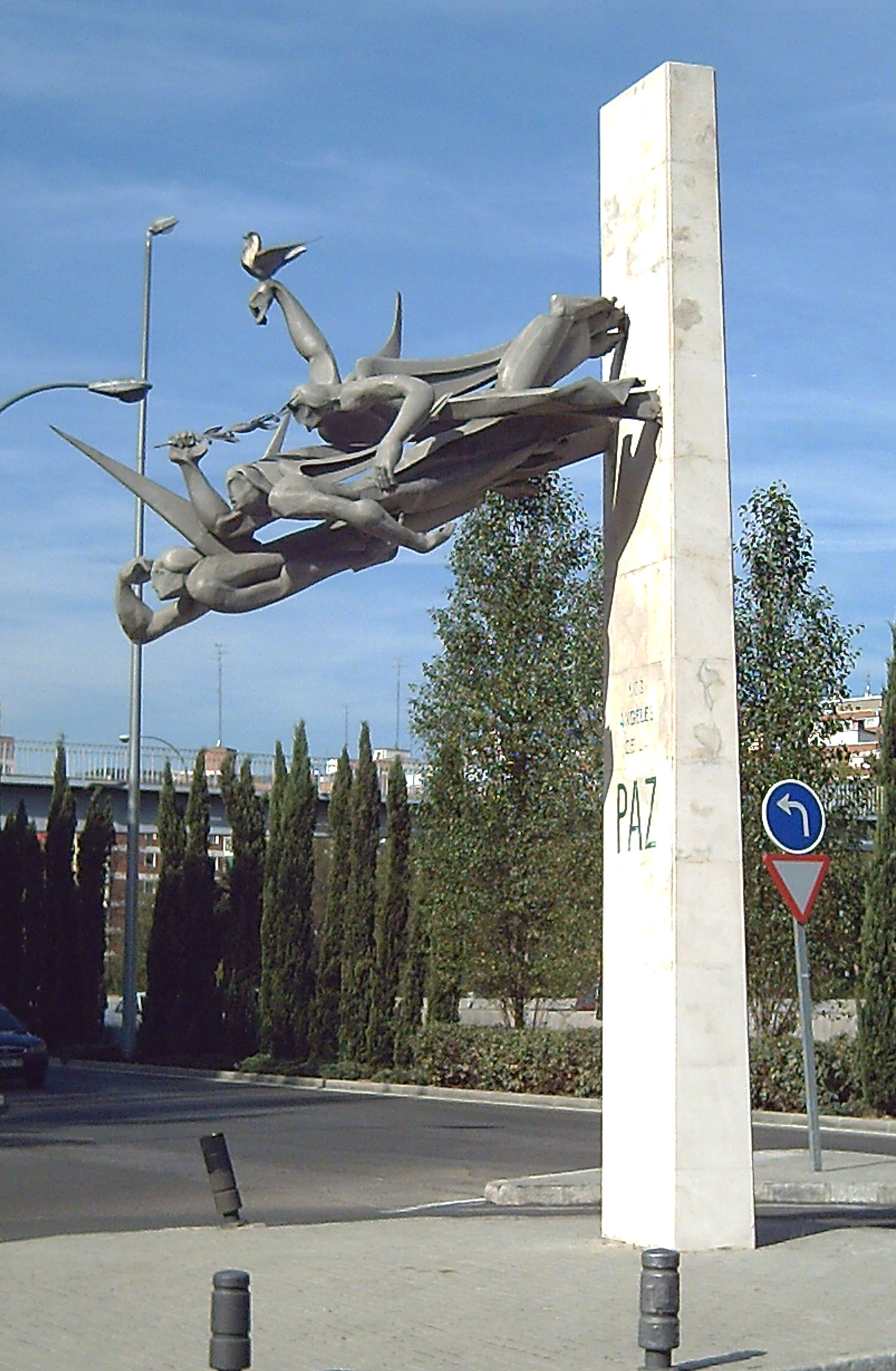 Los Ángeles de la Paz ("The Angels of Peace"), in Madrid (Spain). Made by sculptor José Espinós Alonso. Installed in 1964 and restored in 1997.